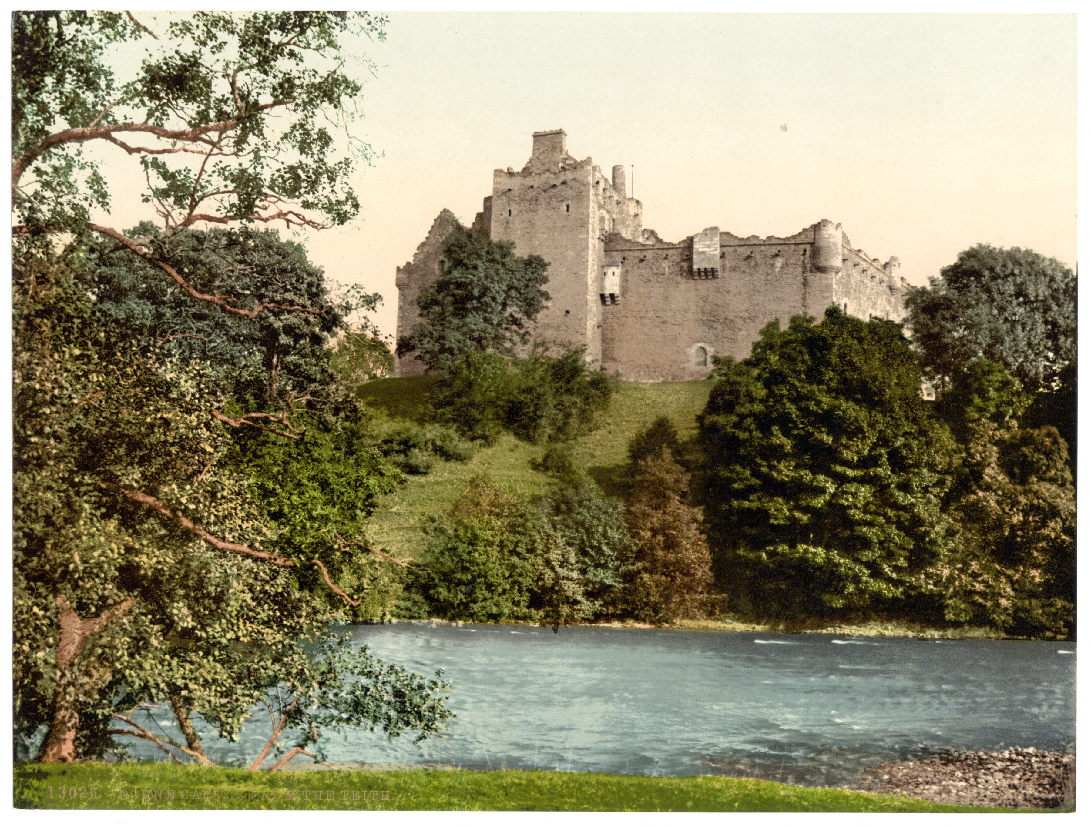 Title from the Detroit Publishing Co., catalogue J-foreign section. Detroit, Mich. : Detroit Photographic Company, 1905.; More information about the Photochrom Print Collection is available at Print no. "13026".; Forms part of: Views of landscape and architecture in Scotland in the Photochrom print collection.